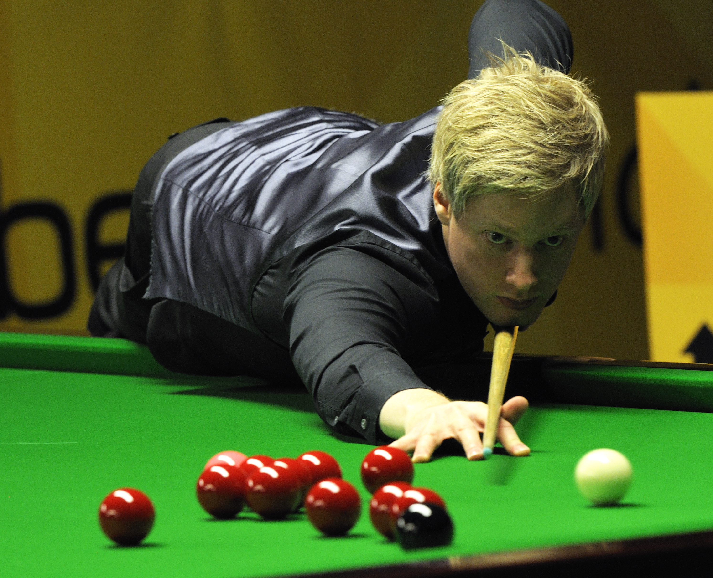 Picture taken in Berlin during the Snooker German Masters in 2013. Neil Robertson.